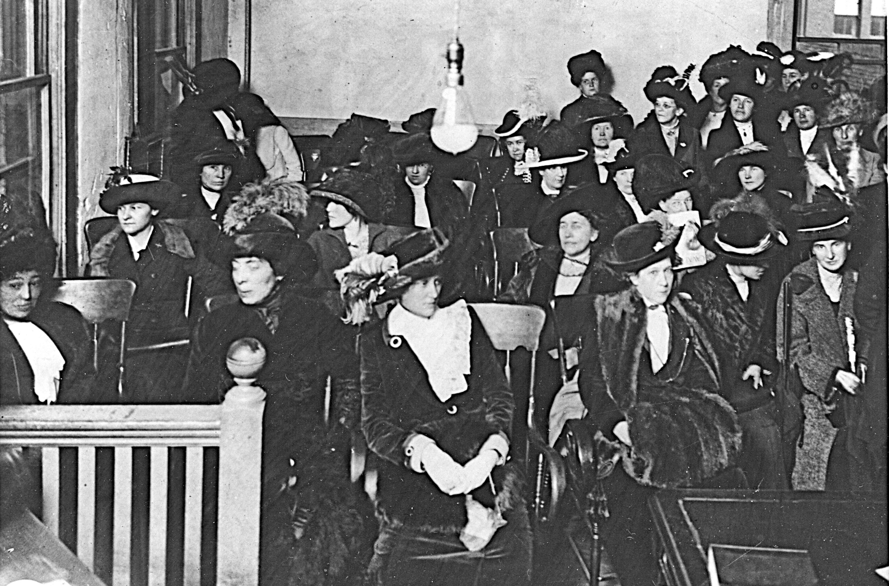 Crowd of women register for jury duty after gaining the right to vote, Portland, Oregon, 1912. Members of crowd include Marie Equi and [presumed from context of photo in source!] Abigail Scott Duniway.